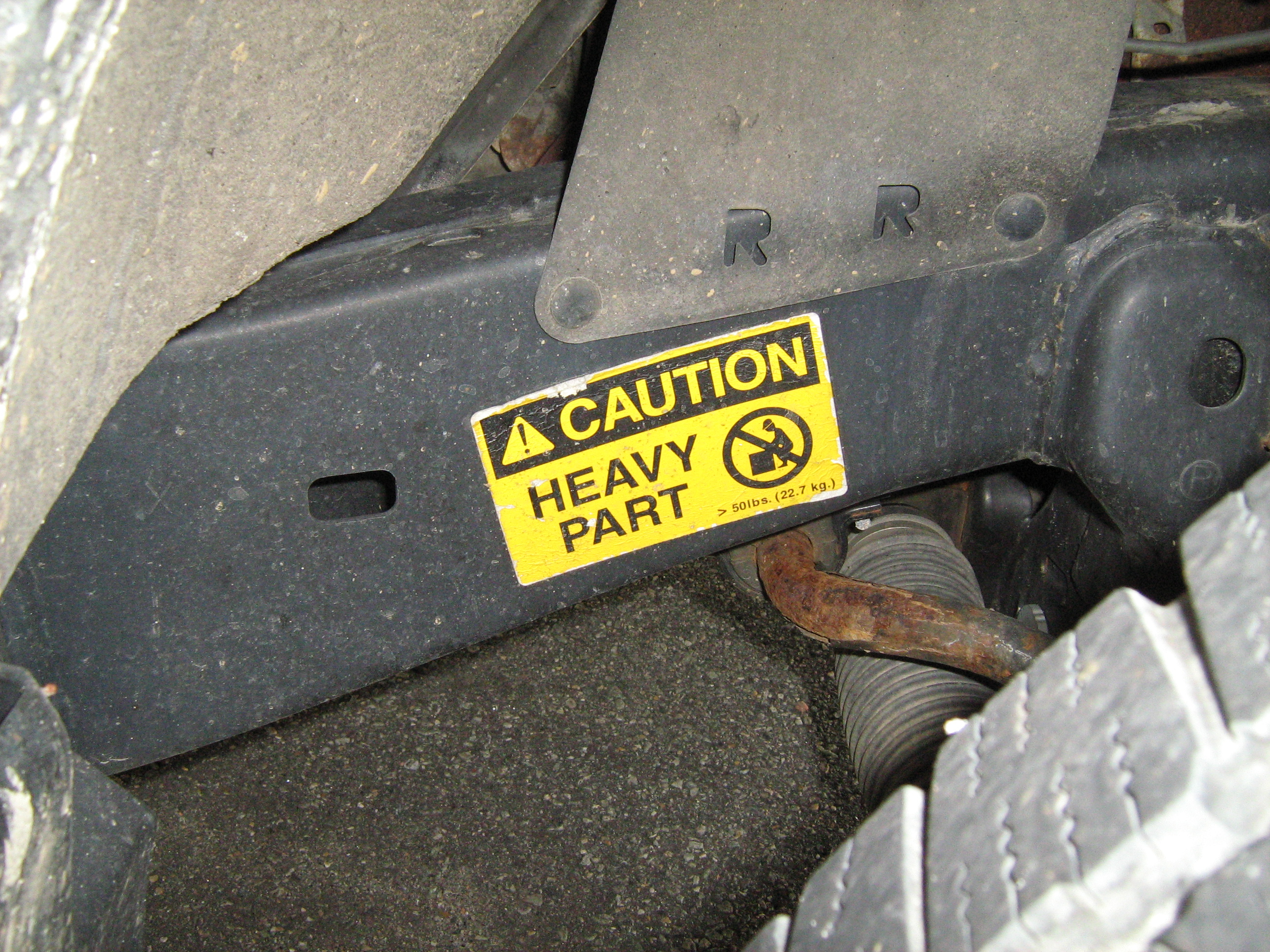 A new replacement frame that was installed in one of the 2003-2003 recalled Toyota Tundra pickups due to excessive rust. Detail of the warning label noting that this is a heavy part!